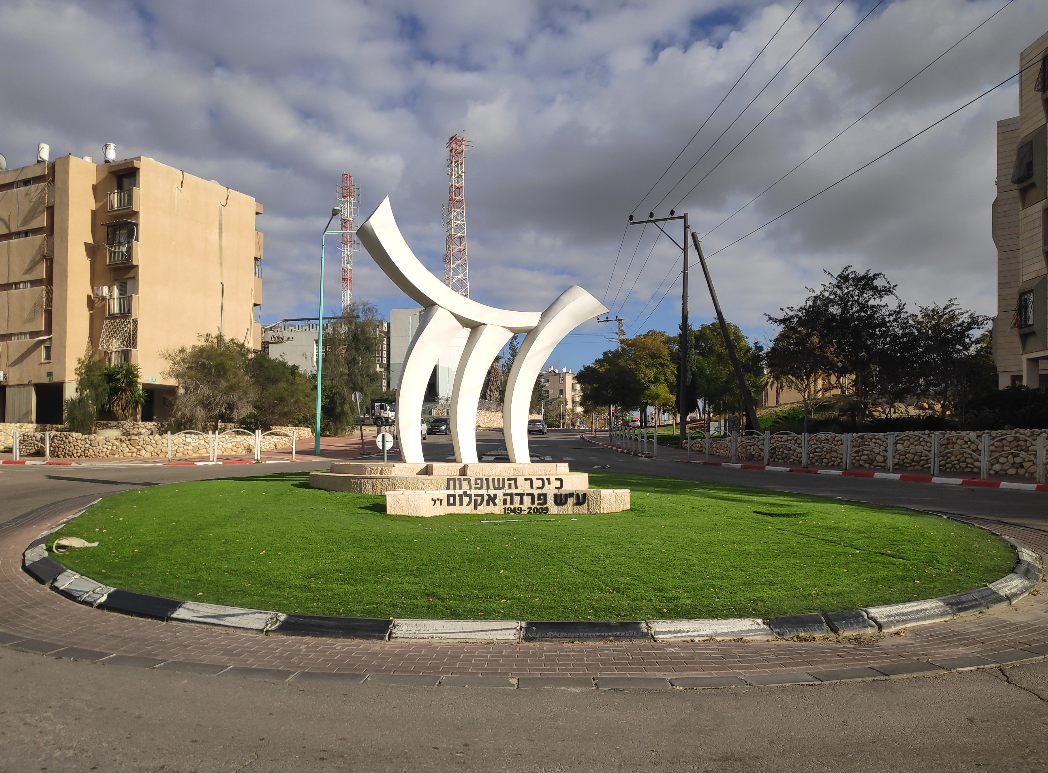 Freda Aklum's Shofar Square, Februery 2020